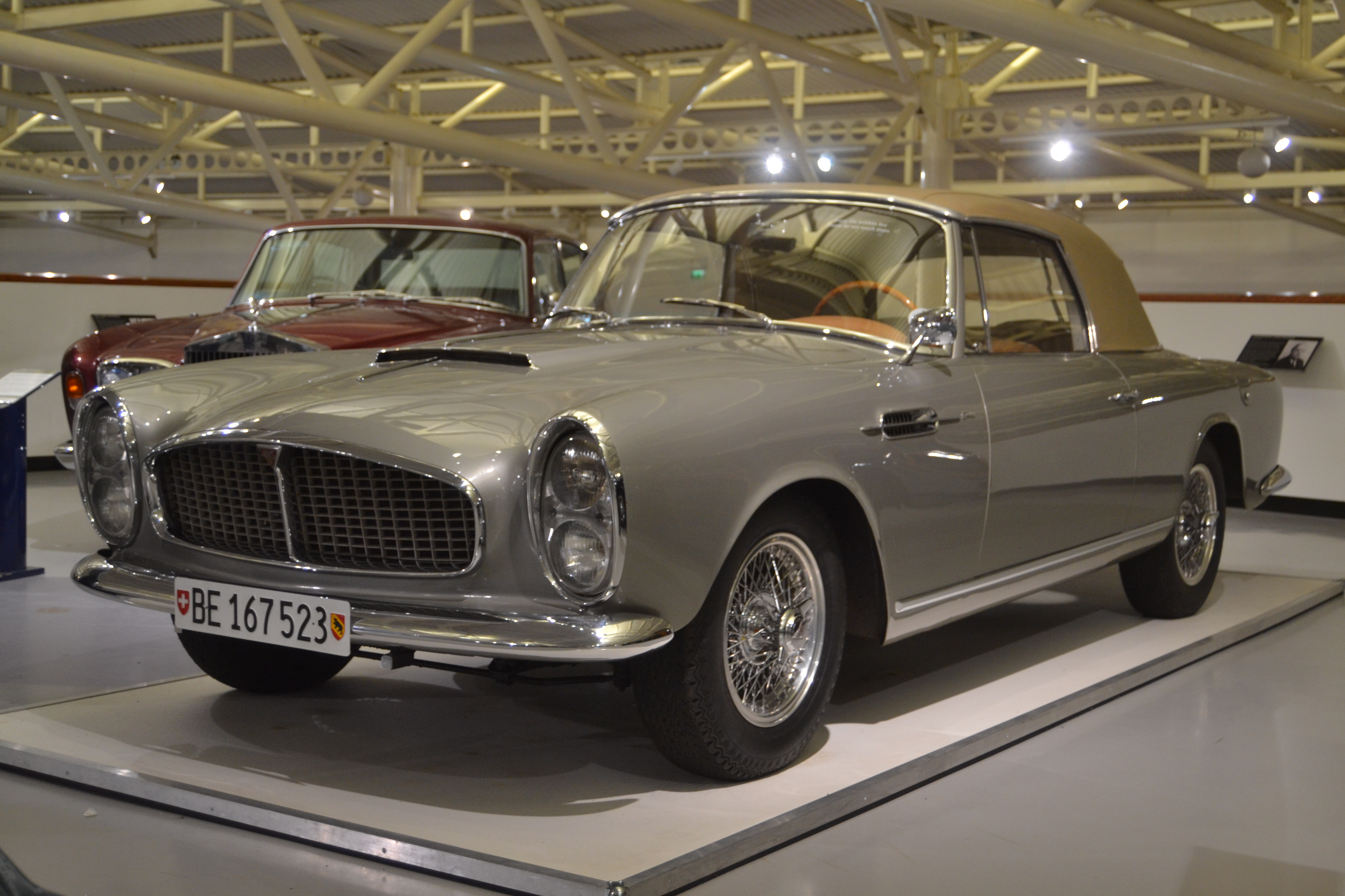 Alvis TE 21, Body by Carrosserie Graber, exposed at the Heritage Motor Centre, Gaydon, Warwickshire (UK)